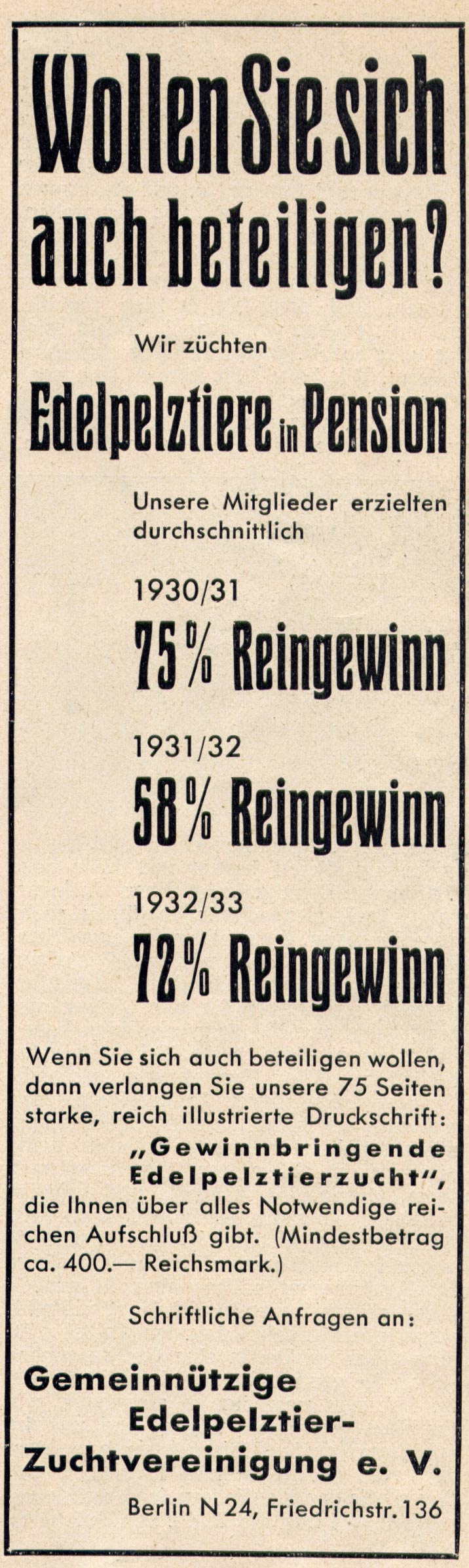 German ad about participating in breeding animals with valuable fur. The ad was placed by the "Gemeinnützige Edelpelztier-Zuchtvereinigung" in Berlin and appeared in the german boulevard magazine "Das Magazin", issue 110 from October, 1933